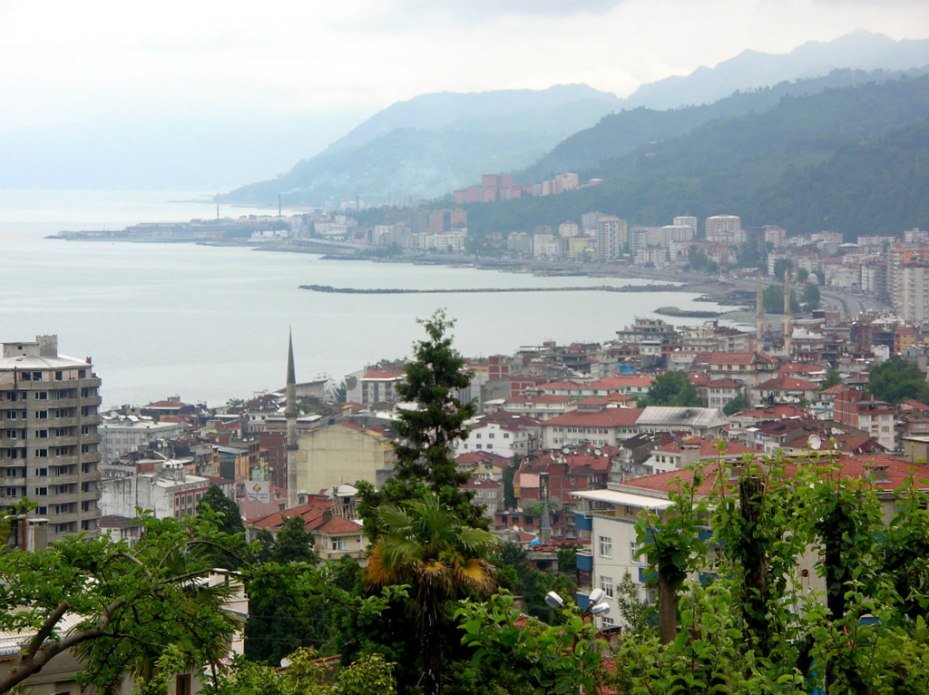 Rize is the capital of Rize Province, in northeast Turkey, on the Black Sea coast.